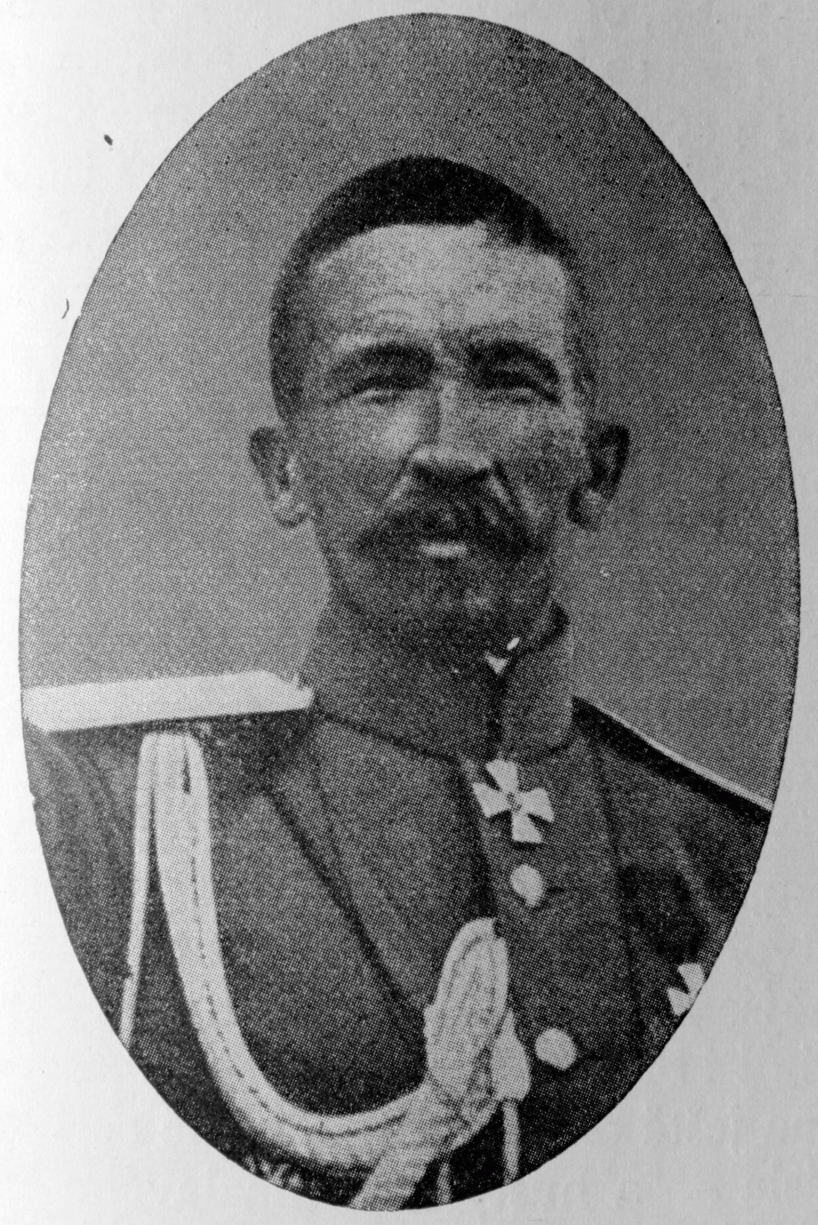 Lavr Georgijevich Kornilov (* August 30, 1870, Ust-Kamenogorsk - 13 April 1918, Yekaterinodar) was a Russian general and leader of the White movement.